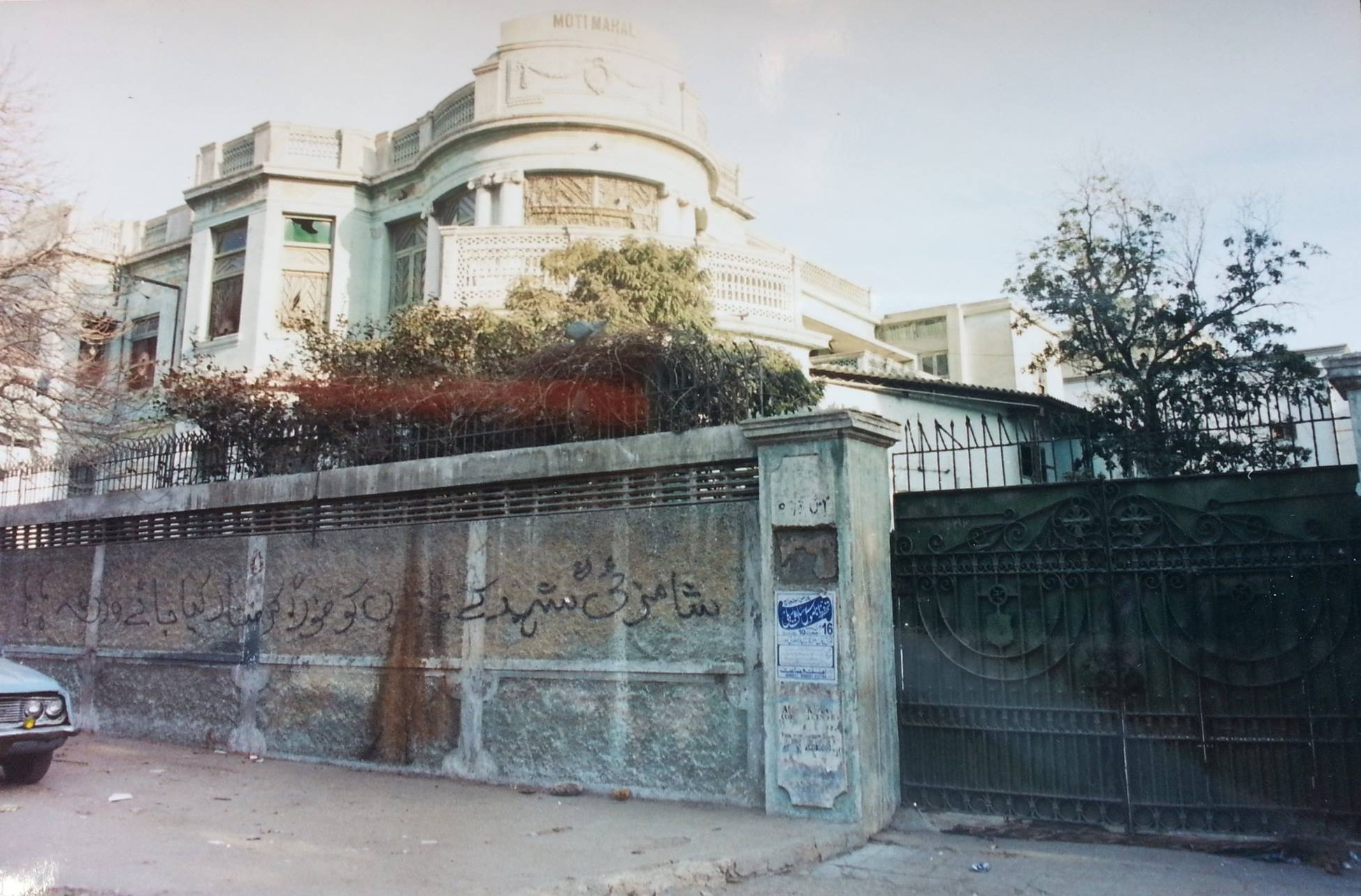 This photo was taken in the recent years. Its owners don't live here now, because they migrated to India in 1947.